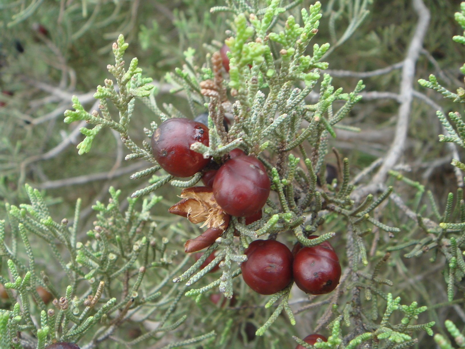 (Juniperus phoenicea) , province of Cádiz, Spain.